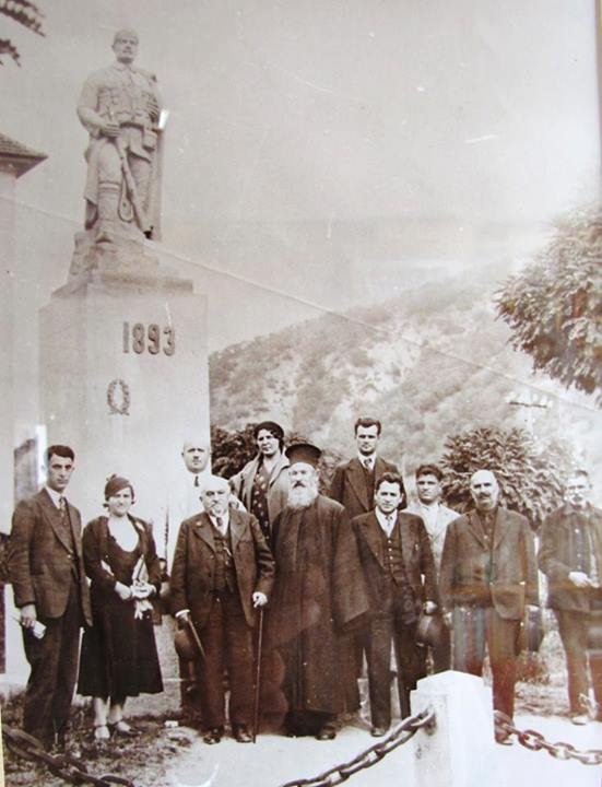 Monument of macedonian chetnik